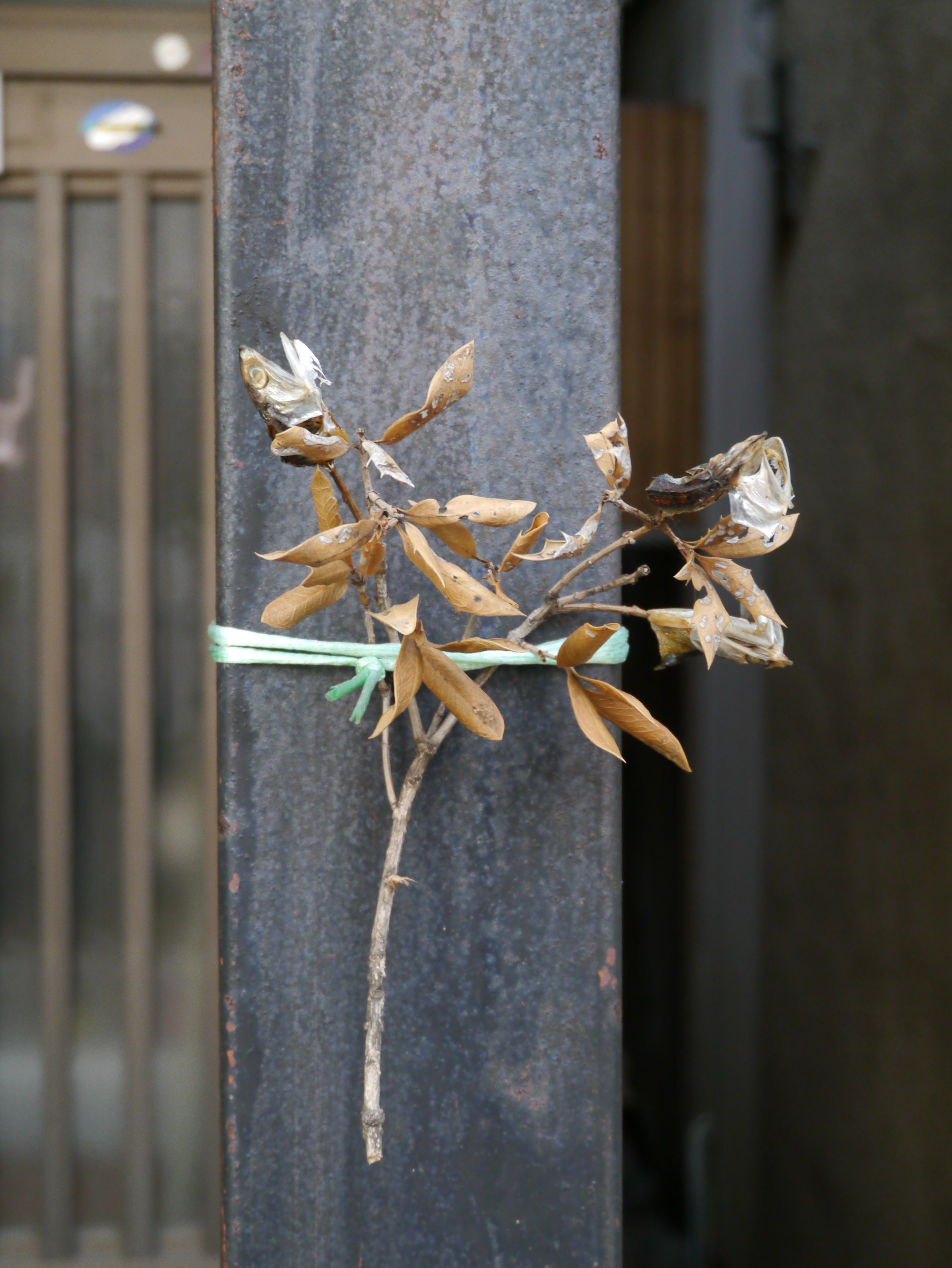 This is one of Japanese customs related to Setsubun festival. Sardine heads make evil go away